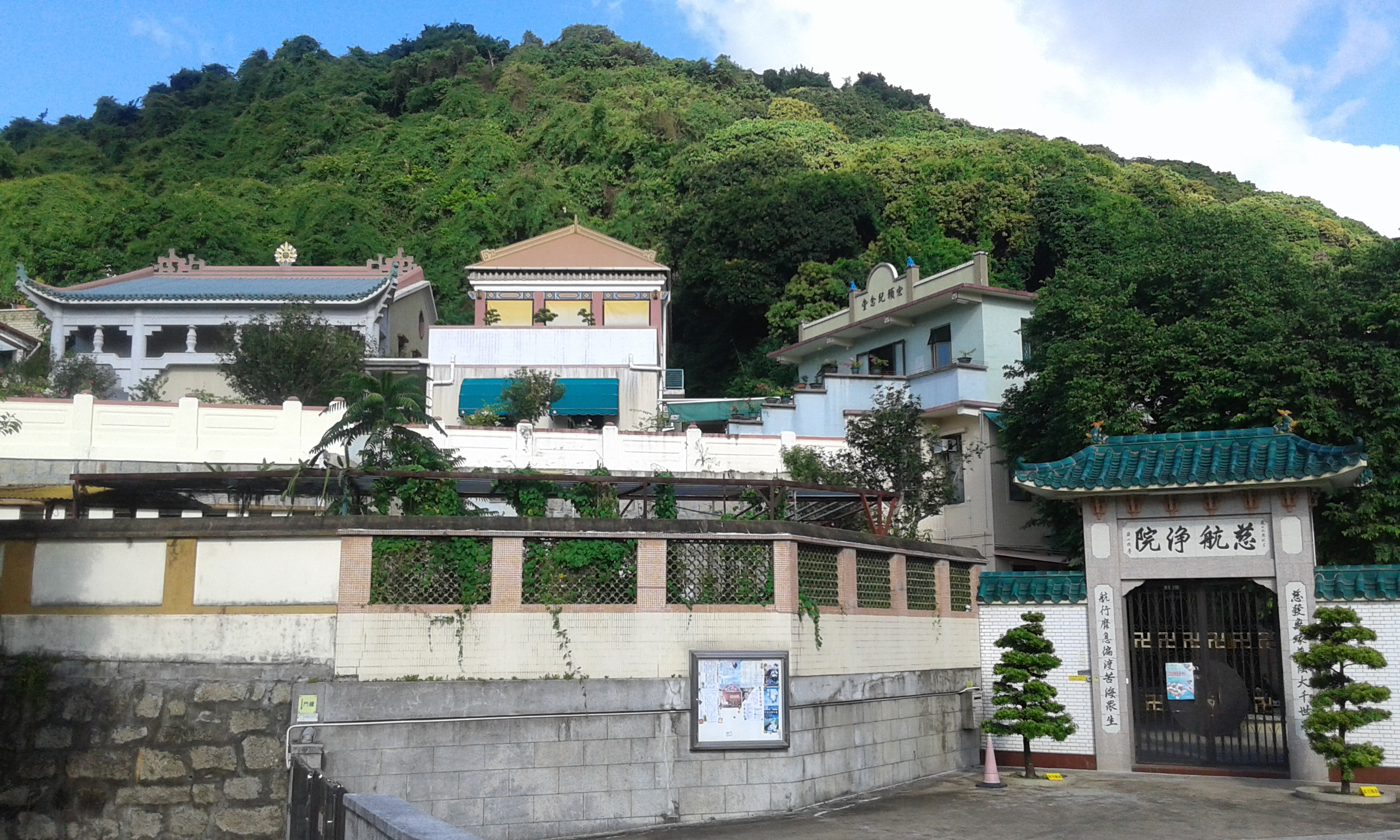 Chi Hong Ching Yuen, a Buddhist nunnery in Tai Wai, Sha Tin District, Hong Kong.